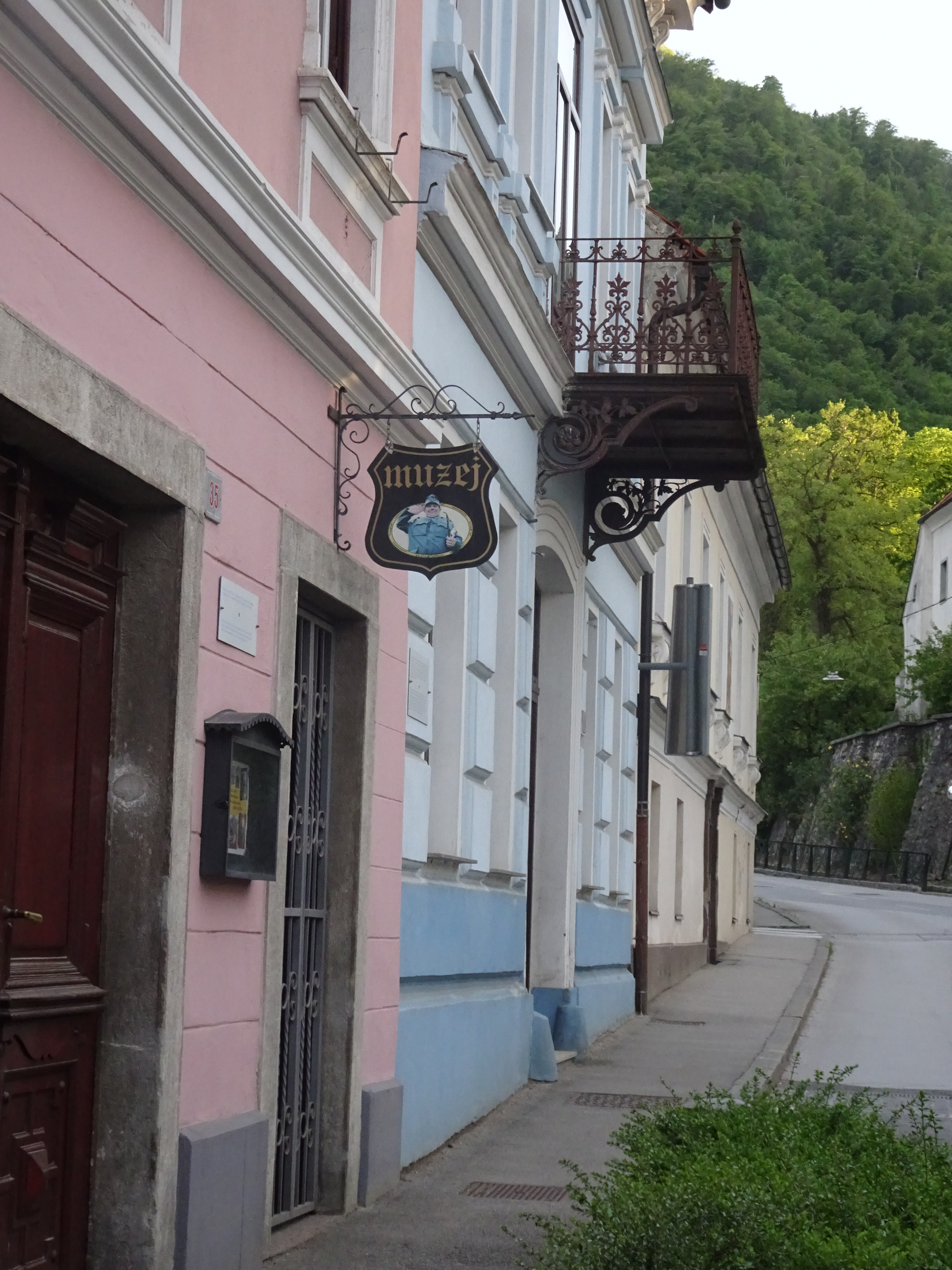 Private WW1 and local museum collection, Slovenske Konjice, Slovenia